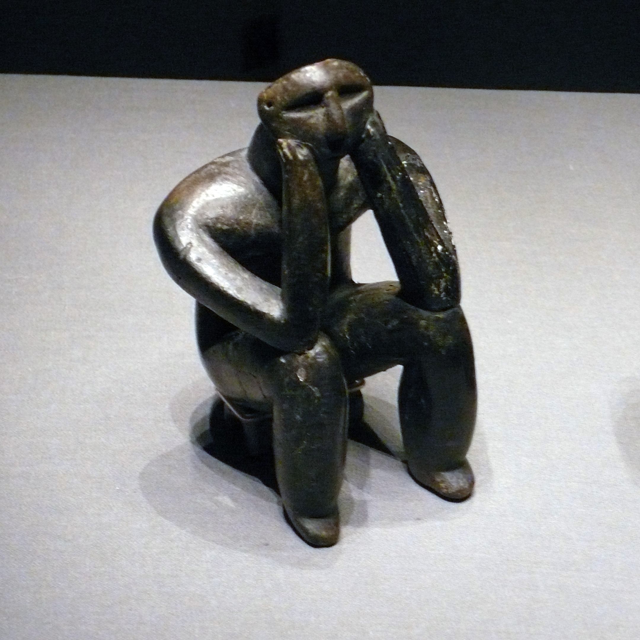 Figurine-"The Thinker". Neolithic, the Hamangia Culture. 5000-4600 BCE. Found in Cernavodă, Constanța, Romania. Collected by the National Museum of Romanian History.